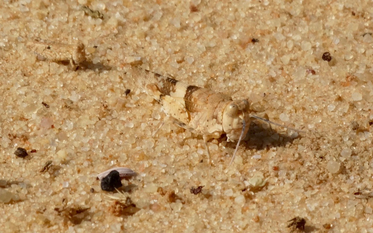 Male Sphingonotus canariensis photographed near Belbedji, Zinder Region, Niger